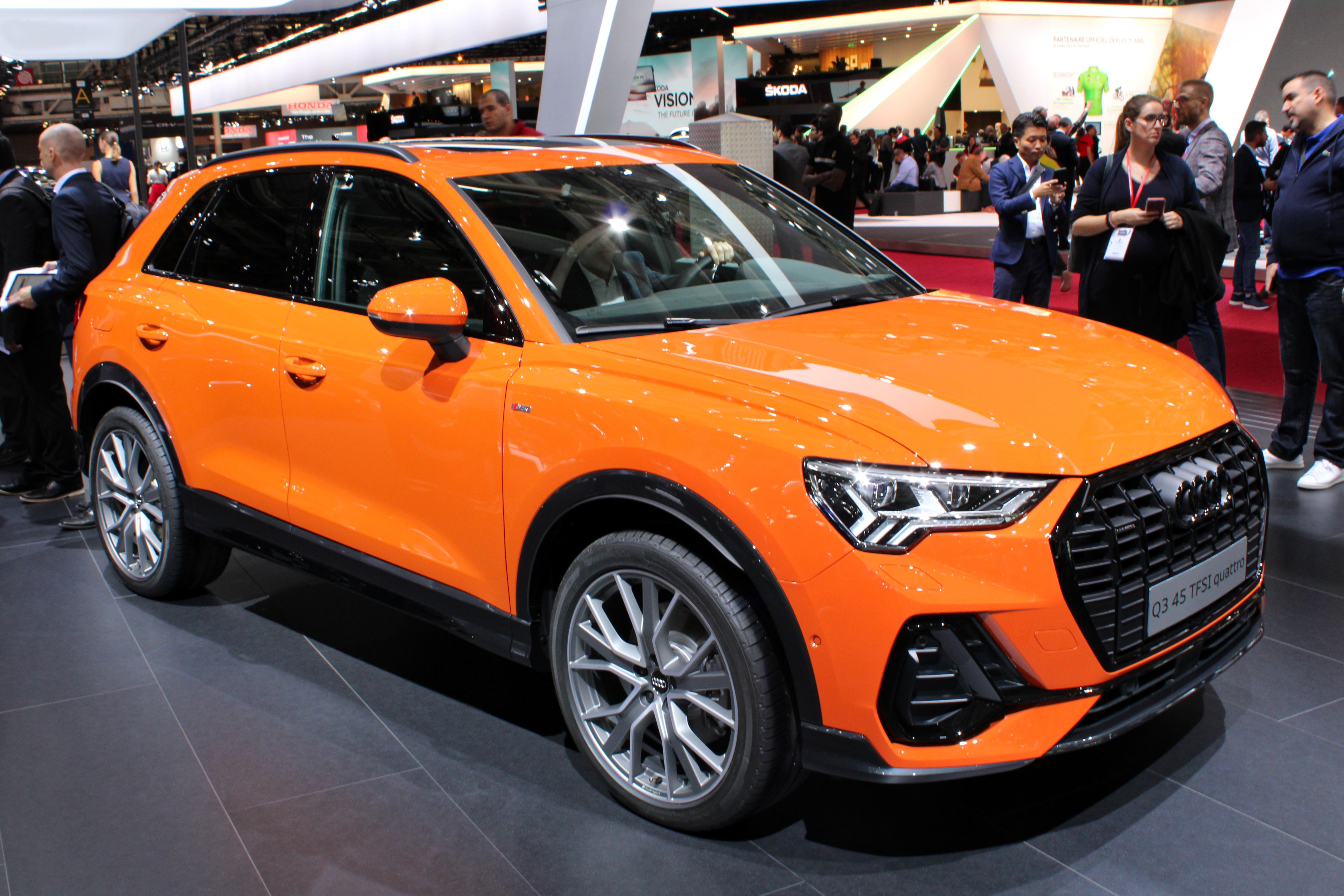 Audi Q3 45 TFSI Quattro at Paris Motor Show 2018